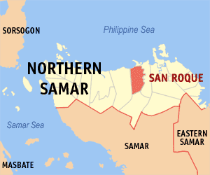 Map of Northern Samar showing the location of San Roque